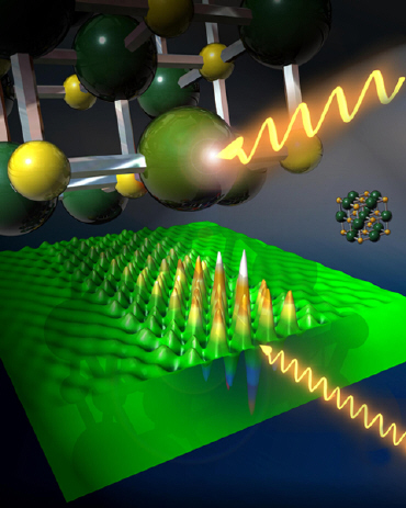 The time dependence of the internal structure of the charge-transfer exciton in LiF, created by an idealized point source (represented by the wavy line). The absence of significant structural changes indicates that the relative motion of the electron and hole is frozen, which demonstrates that this is a Frenkel exciton. The content of the source article and this image is related to: "Dynamical reconstruction of the exciton in LiF with inelastic x-ray scattering". Proc. Nat. Acad. Sci. 105 (34). page 12159 (2008). Free PDF download for this related peer reviewed article.